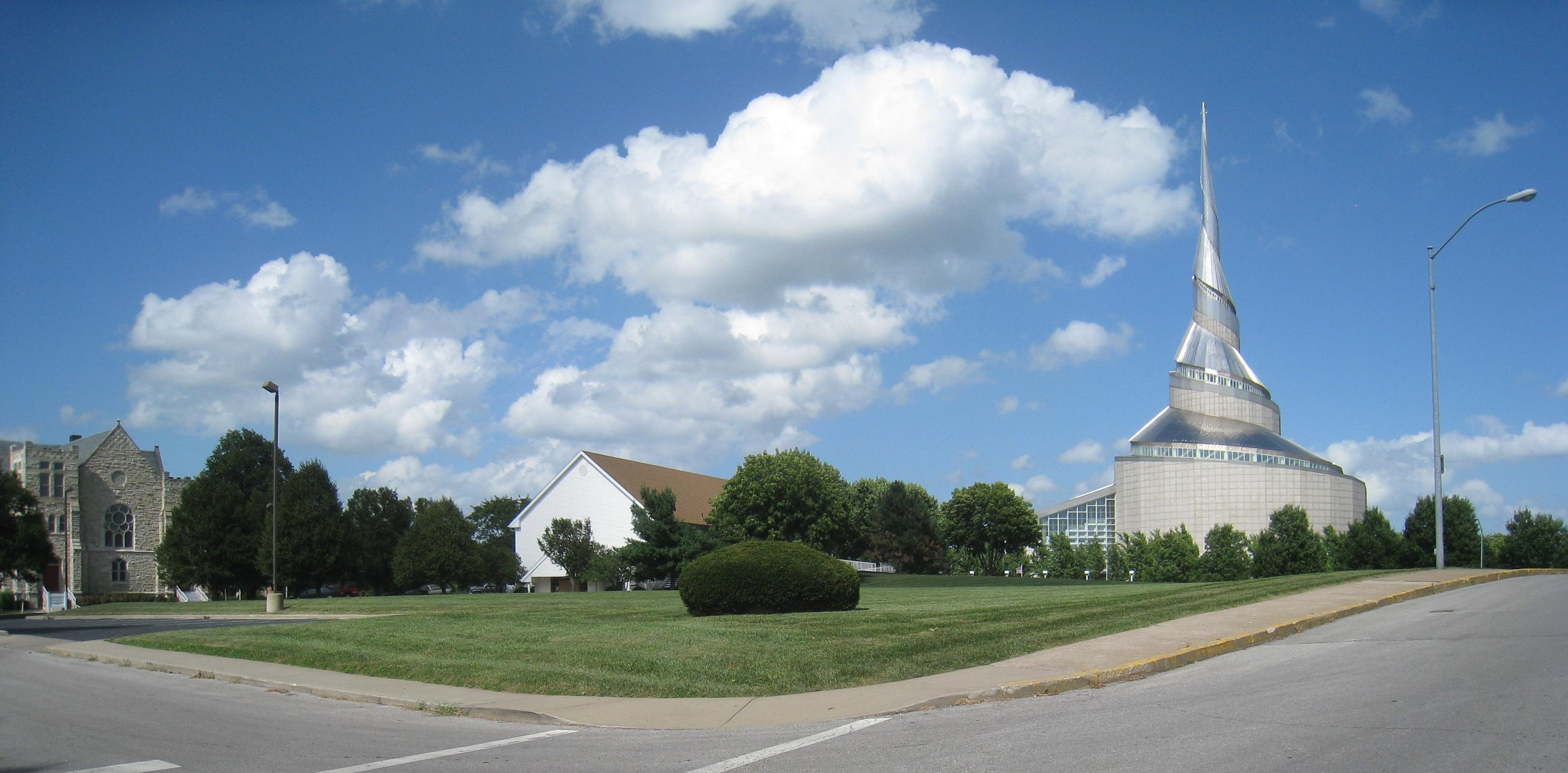 View north-northeast of the Hedrickite Temple Lot, a 2.5 acre plot which is the most notable (and highest elevation) portion of the 63.5-acre "Mormon Temple Lot" purchased by Mormon leadership in December, 1831. Image shows the RLDS/Community of Christ "Independence Temple" in the background (with the spiral tower), the headquarters building of the Church of Christ (Hedrickite) -- also known as the Church of Christ (Temple Lot) -- and to the left, the RLDS Community of Christ Stone Church (Independence, Missouri). Not shown to the right is the RLDS Community of Christ Auditorium south across the street from the Hedrickite Temple Lot, and not shown to the left and behind photographer is the United Nations Peace Plaza (Independence Missouri).